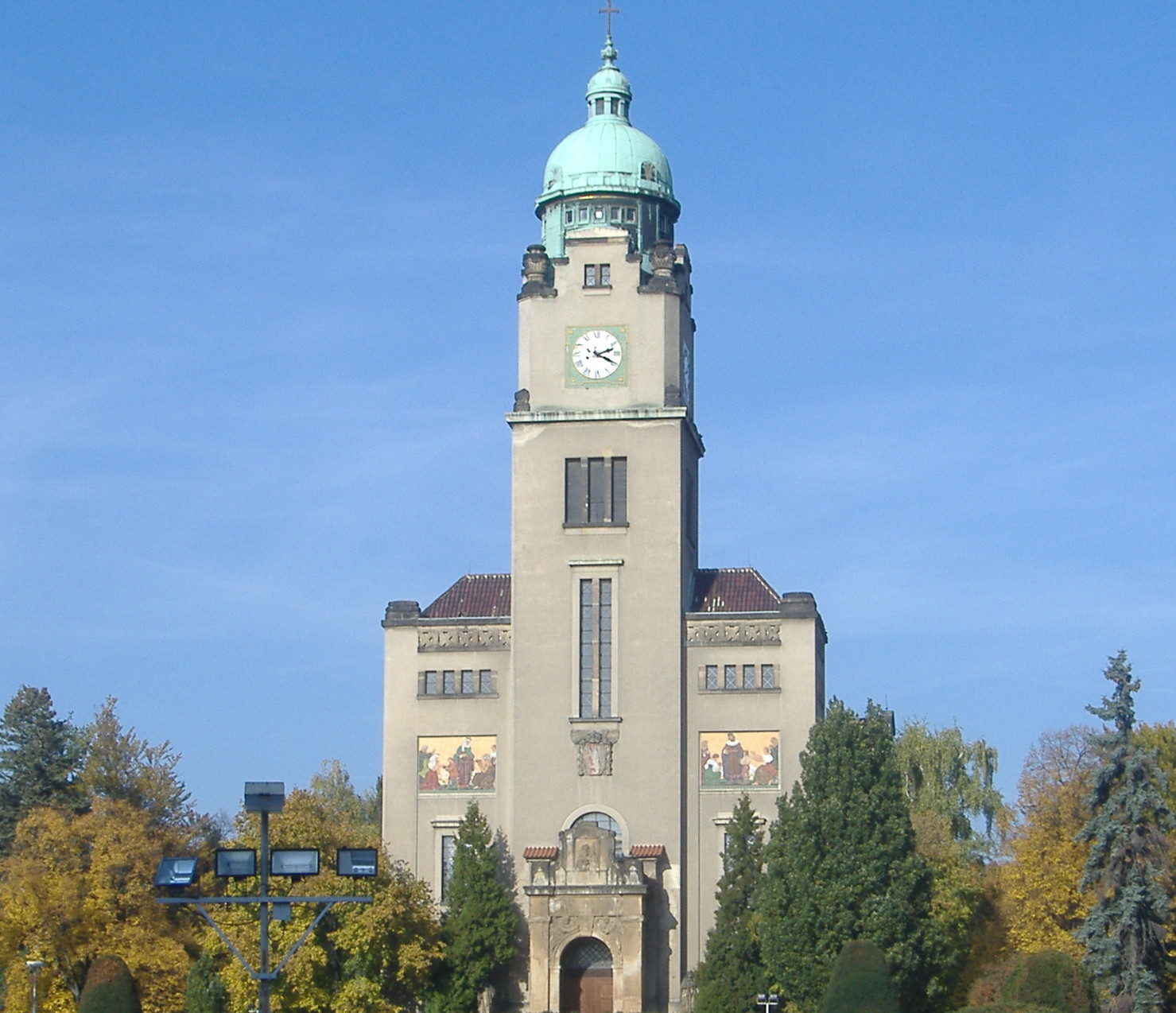 The Church of st. Venceslaus in Psychiatric Clinic in Prague - Bohnice